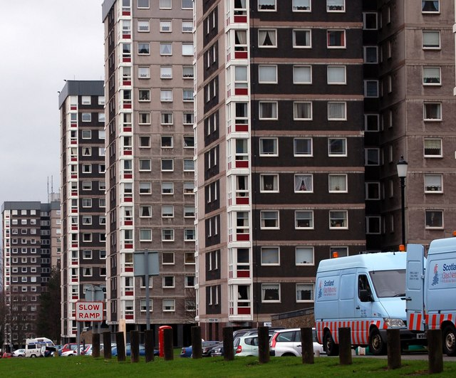 Multi-storey flats (2) These blocks of flats were built in the 1960s on part of the grounds of Callendar House.